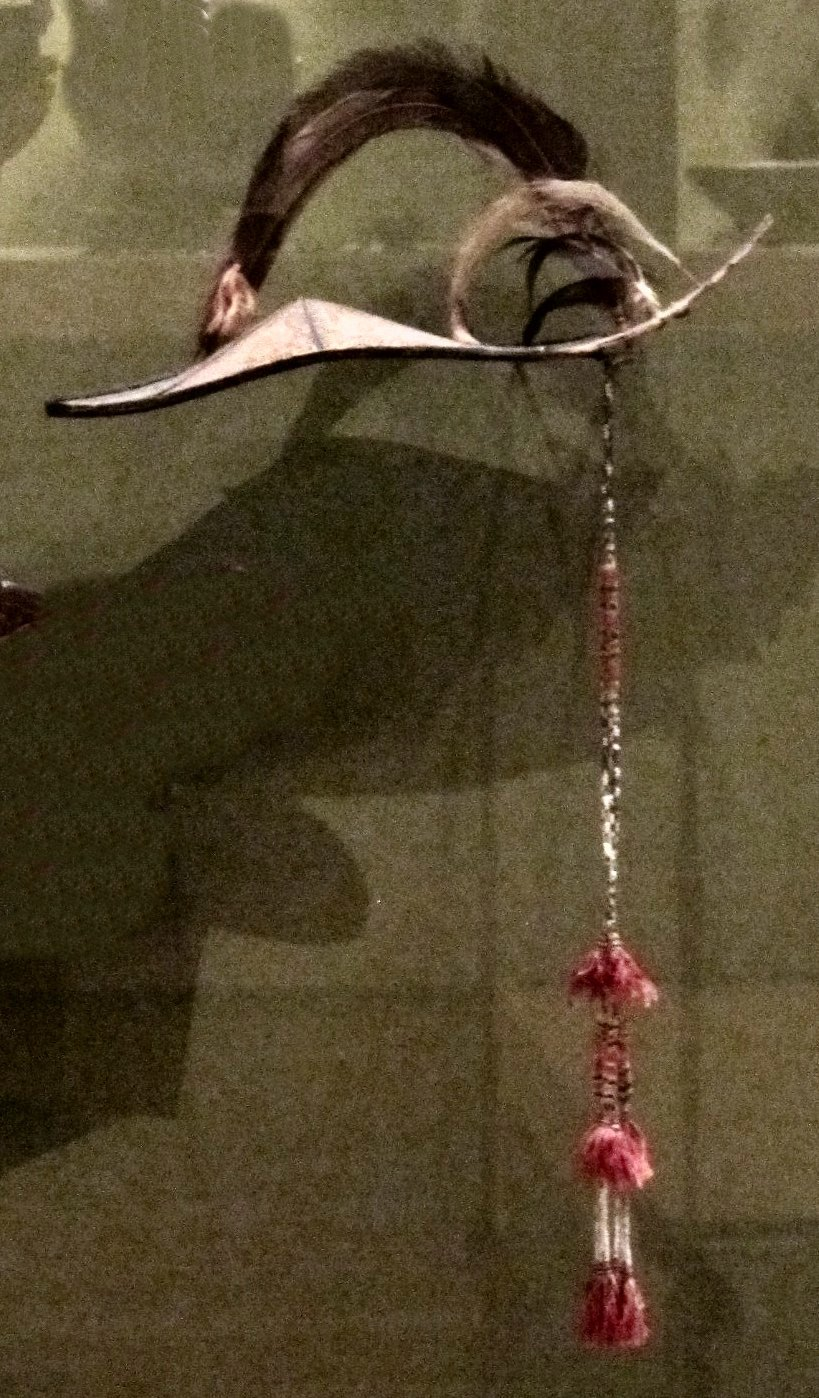 Hat from Mindanao, Mandaya, palm, bamboo, feathers, cotton, fiber and beads, Honolulu Museum of Art